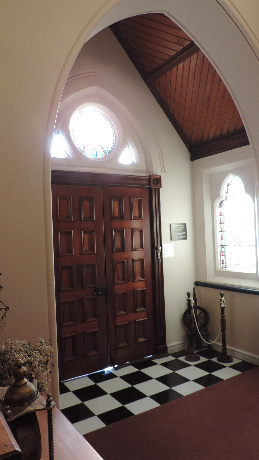 Our Lady of Assumption Convent, Warwick - Entrance hall, interior view, 2015